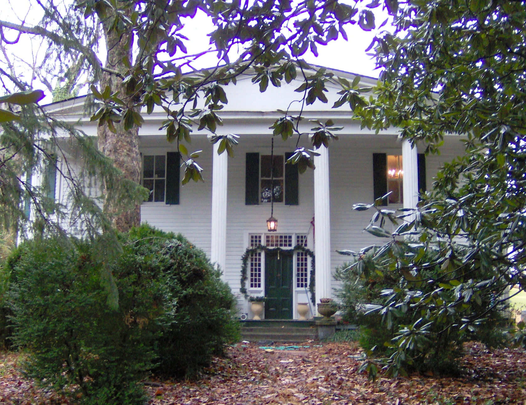 Colonial Hall in Oliver Springs, Tennessee, USA. This house, built in the mid-19th century around an 1819 log cabin, is currently being restored.